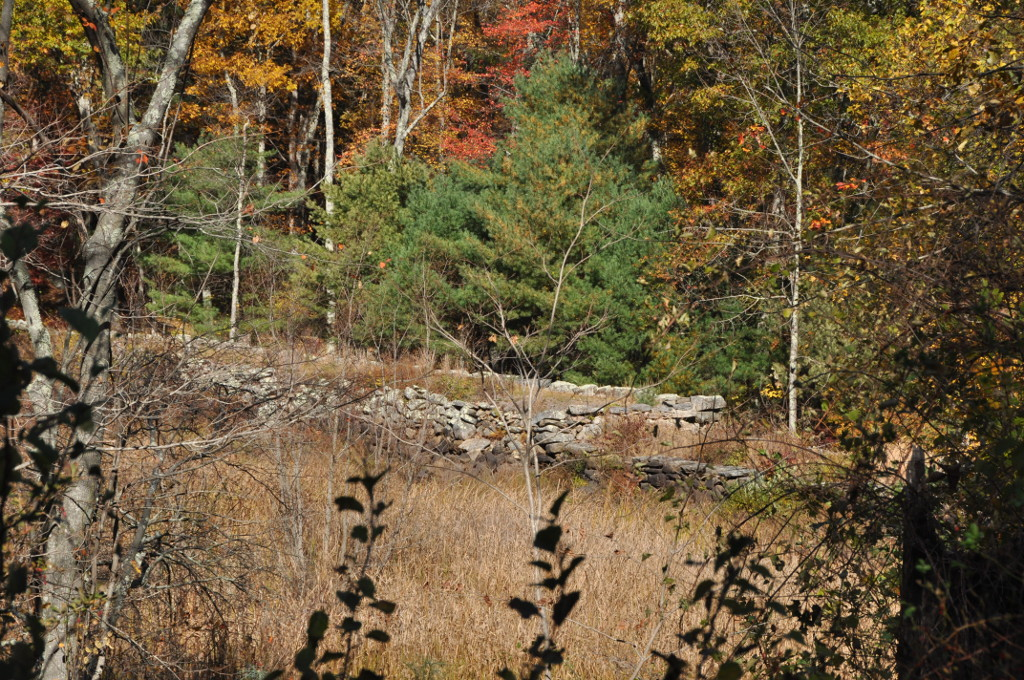 Clayville Historic District, Clayville (Foster and Scituate), Rhode Island. Foundations of a mill building.